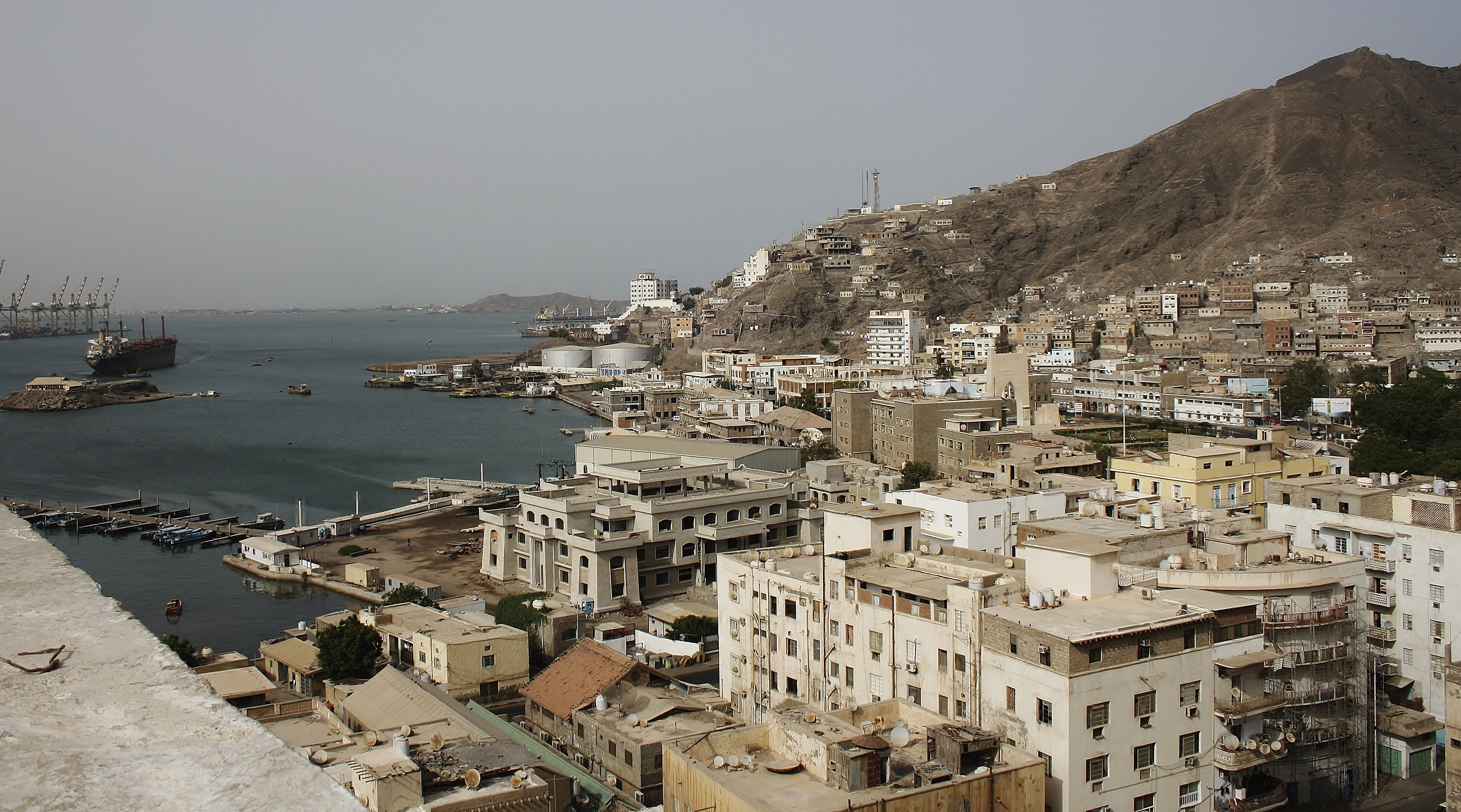 Steamer Point . . . to the right liesTawahi.